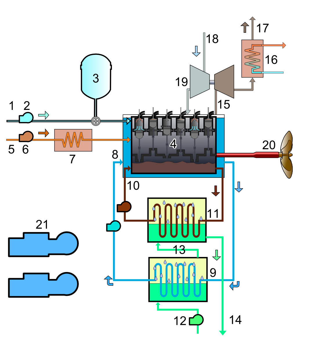 Block diagram of a ship's diesel engine